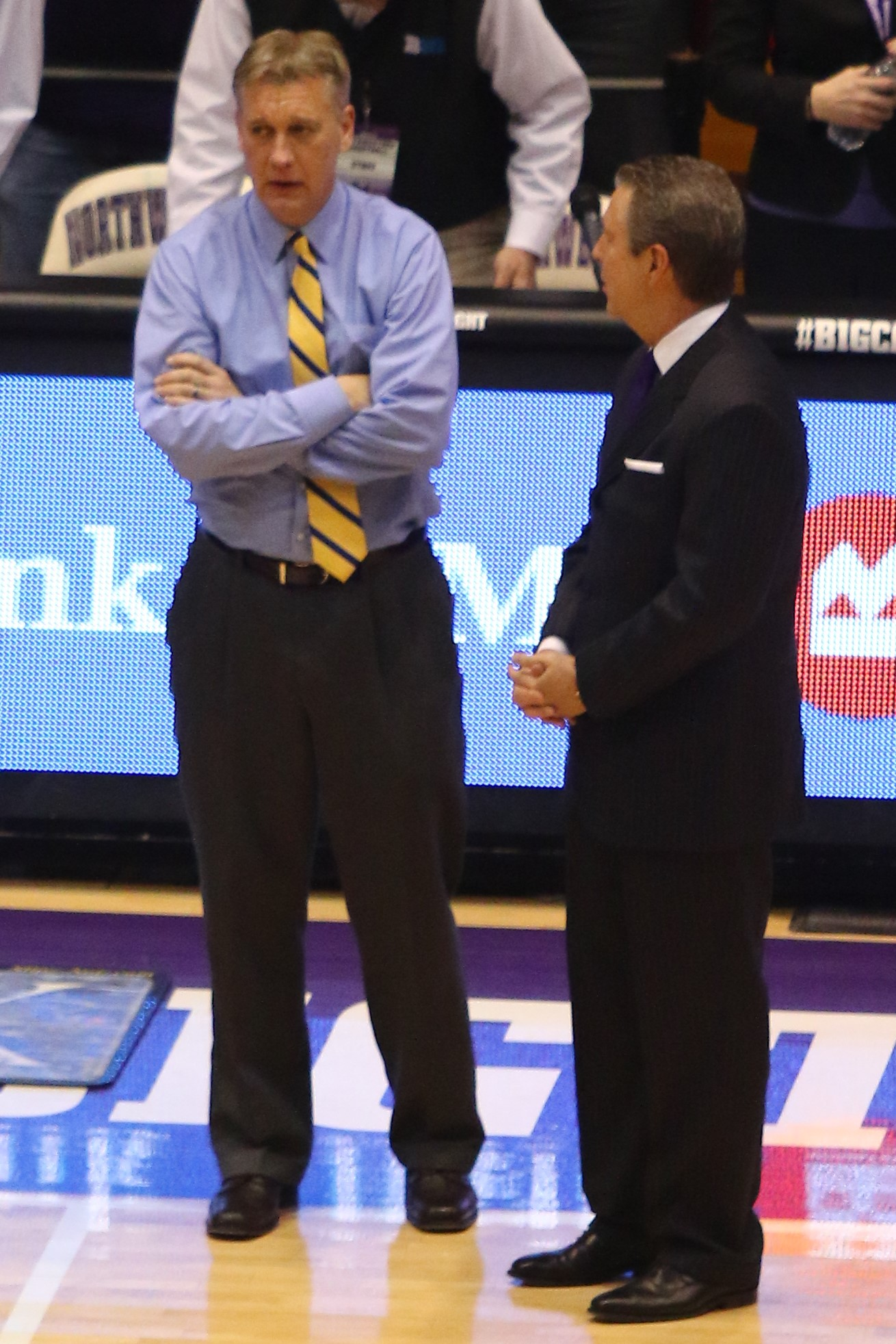 Jeff Meyer for the w:2014–15 Michigan Wolverines men's basketball team at Welsh-Ryan Arena